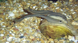 Yellow lampmussel (Lampsilis cariosa) displaying its lure. 2009.